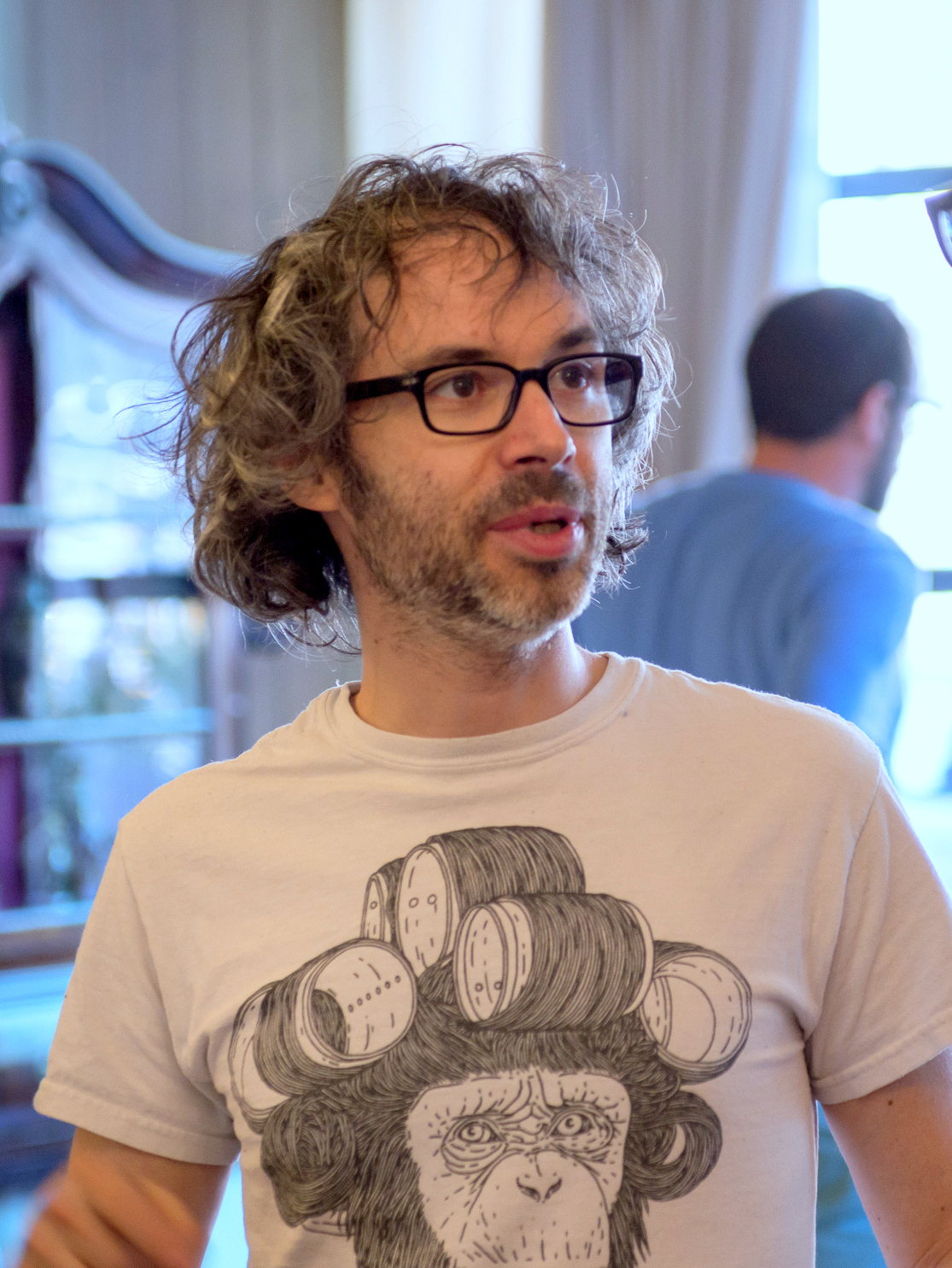 Encuentro de James Rhodes+Elvira Lindo con los medios. Maiatzak 4 mayo. Donostia